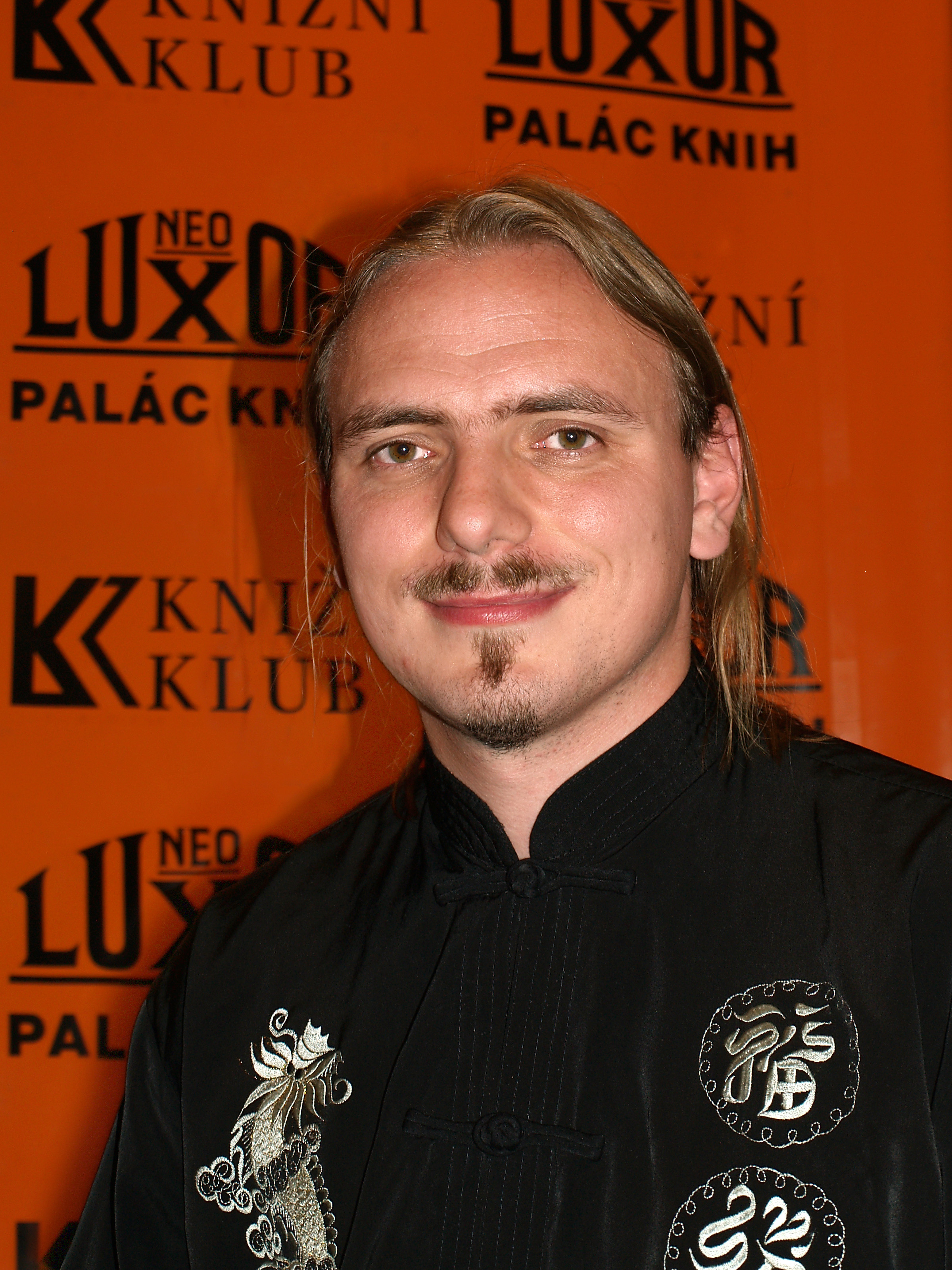 Czech fantasy writer Jakub D. Kočí